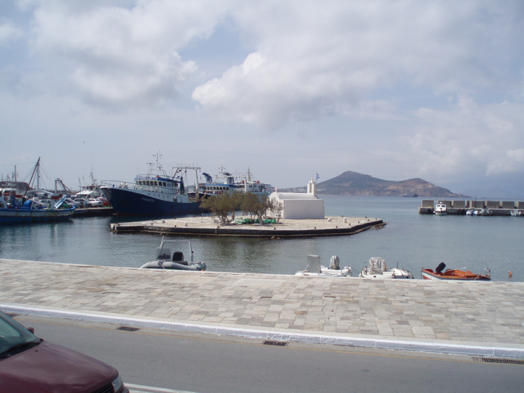 Inner islet of Madonna Myrtidiotissa in port of Naxos island